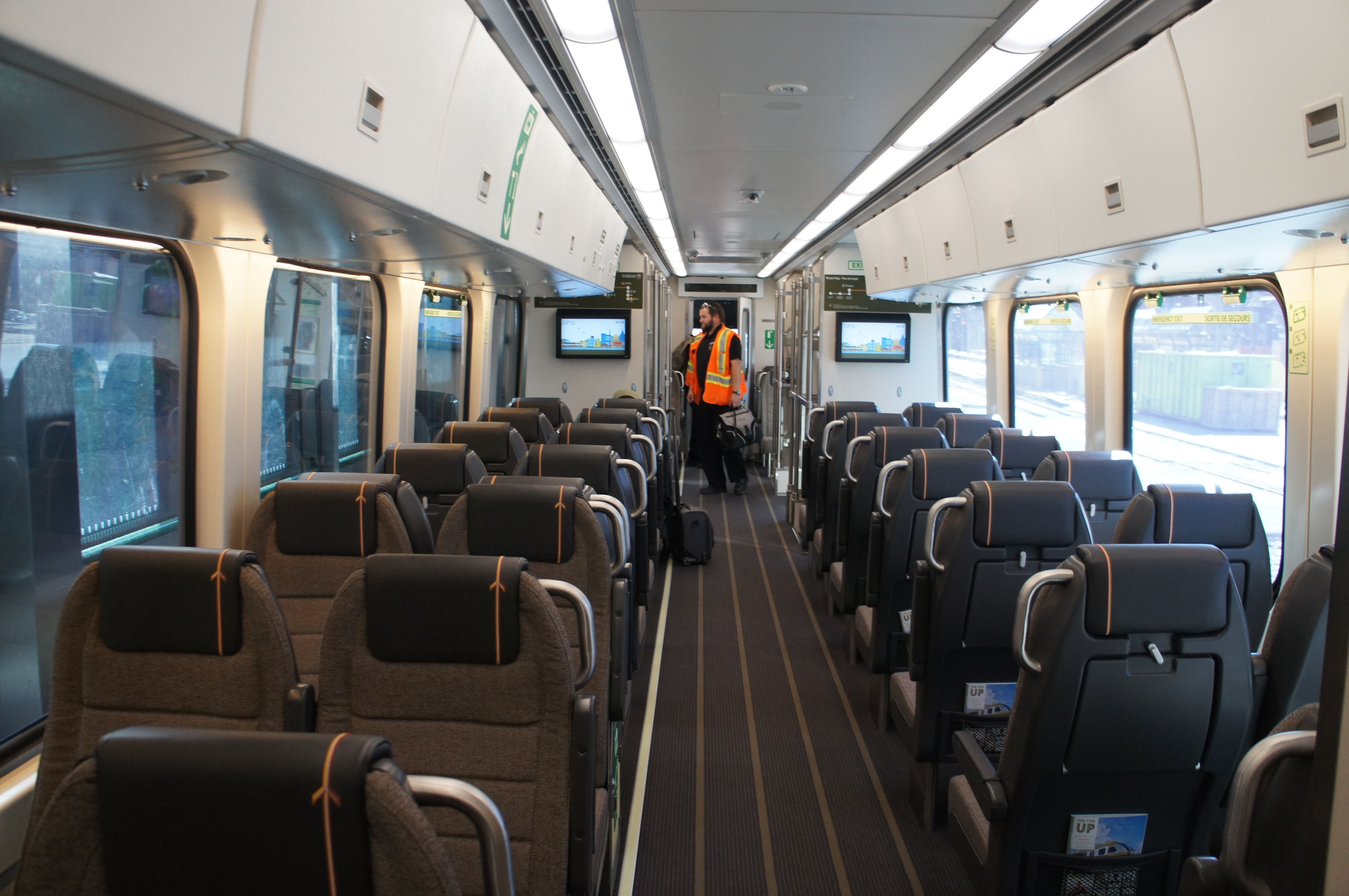 Union Pearson Express DMU 1004 Interior